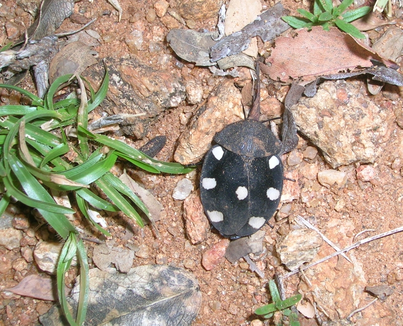 Seven spotted Roach, Thiruvannamalai. Therea petiveriana, (Determination courtesy: Prof. C. A. Viraktamath) Note that this is now a new species Therea bernhardti Fritzsche, 2009